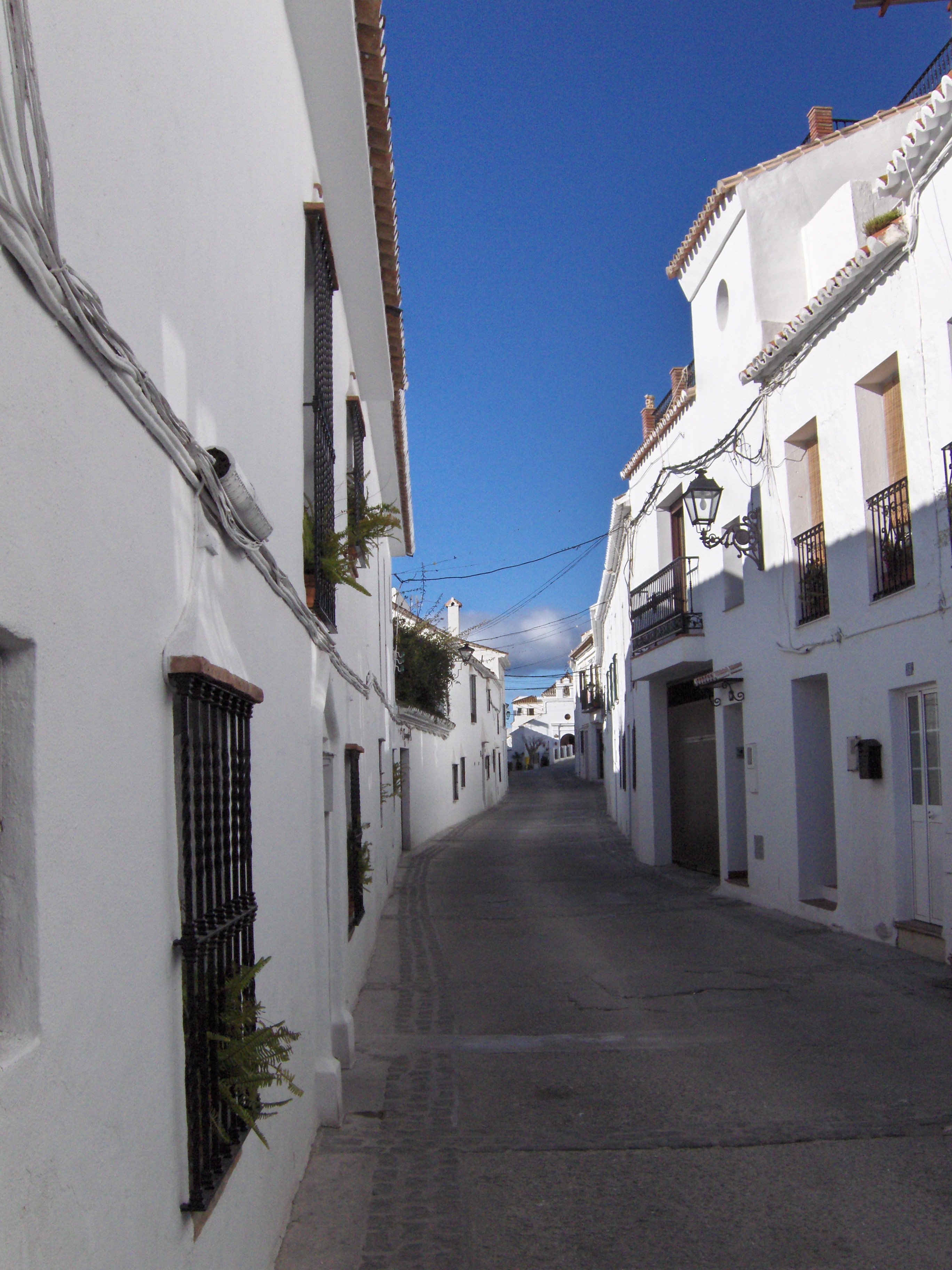 Street in Mijas Pueblo